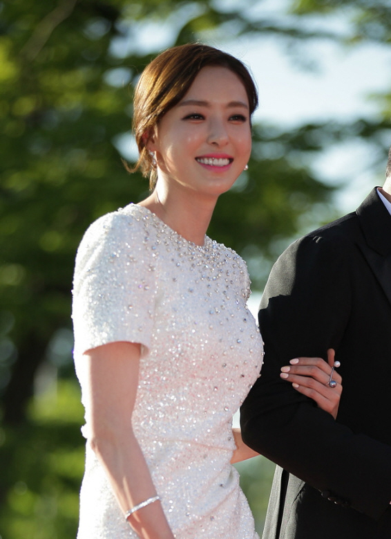 제19회 부천국제판타스틱영화제 개막식 레드카펫 part.1